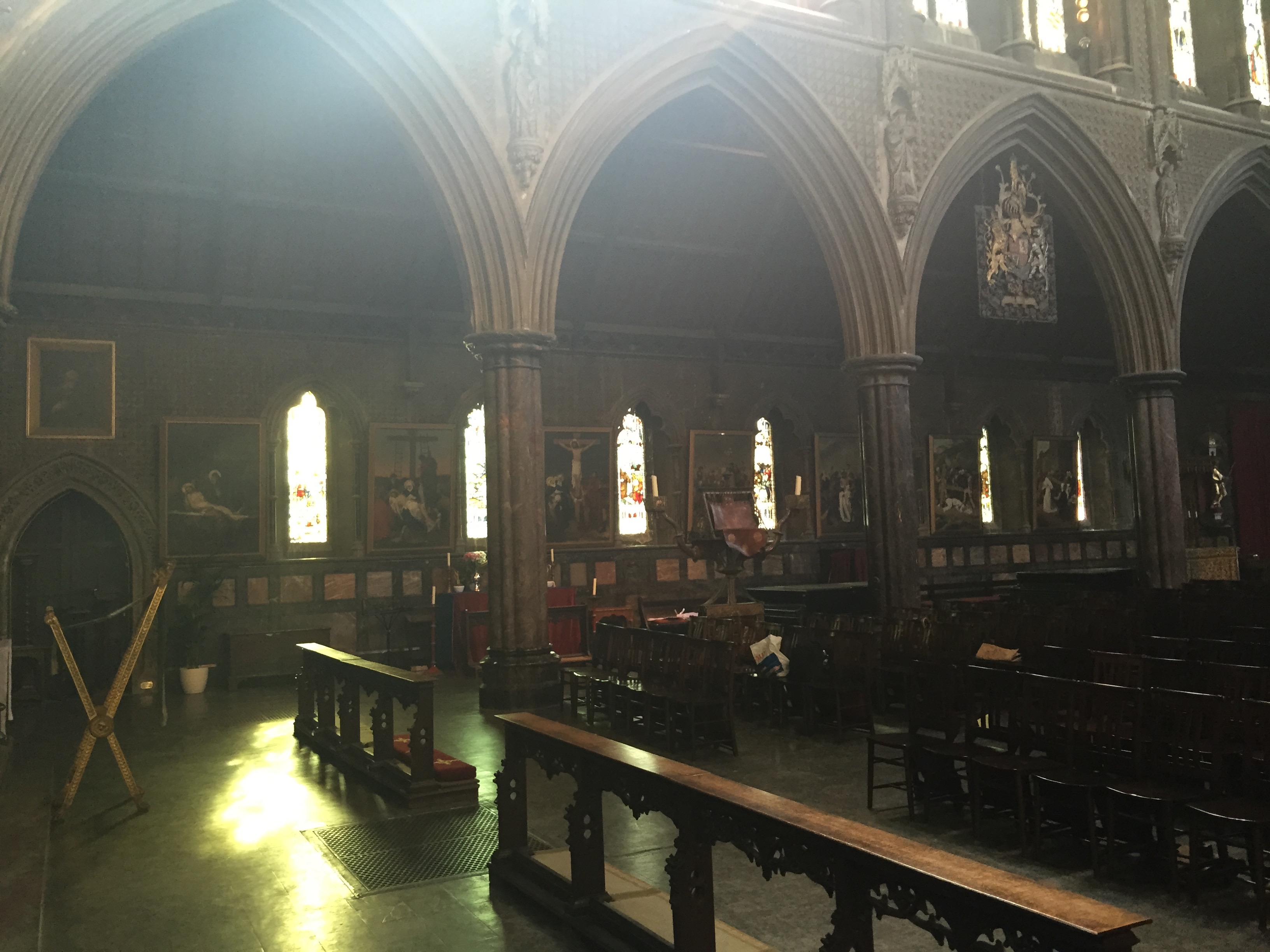 St Cuthberts interior south wall stations of the cross and lectern listed building No. 266119